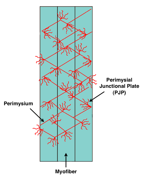 Drawing of perimysium's organization and connection to endomysium of skeletal muscle.